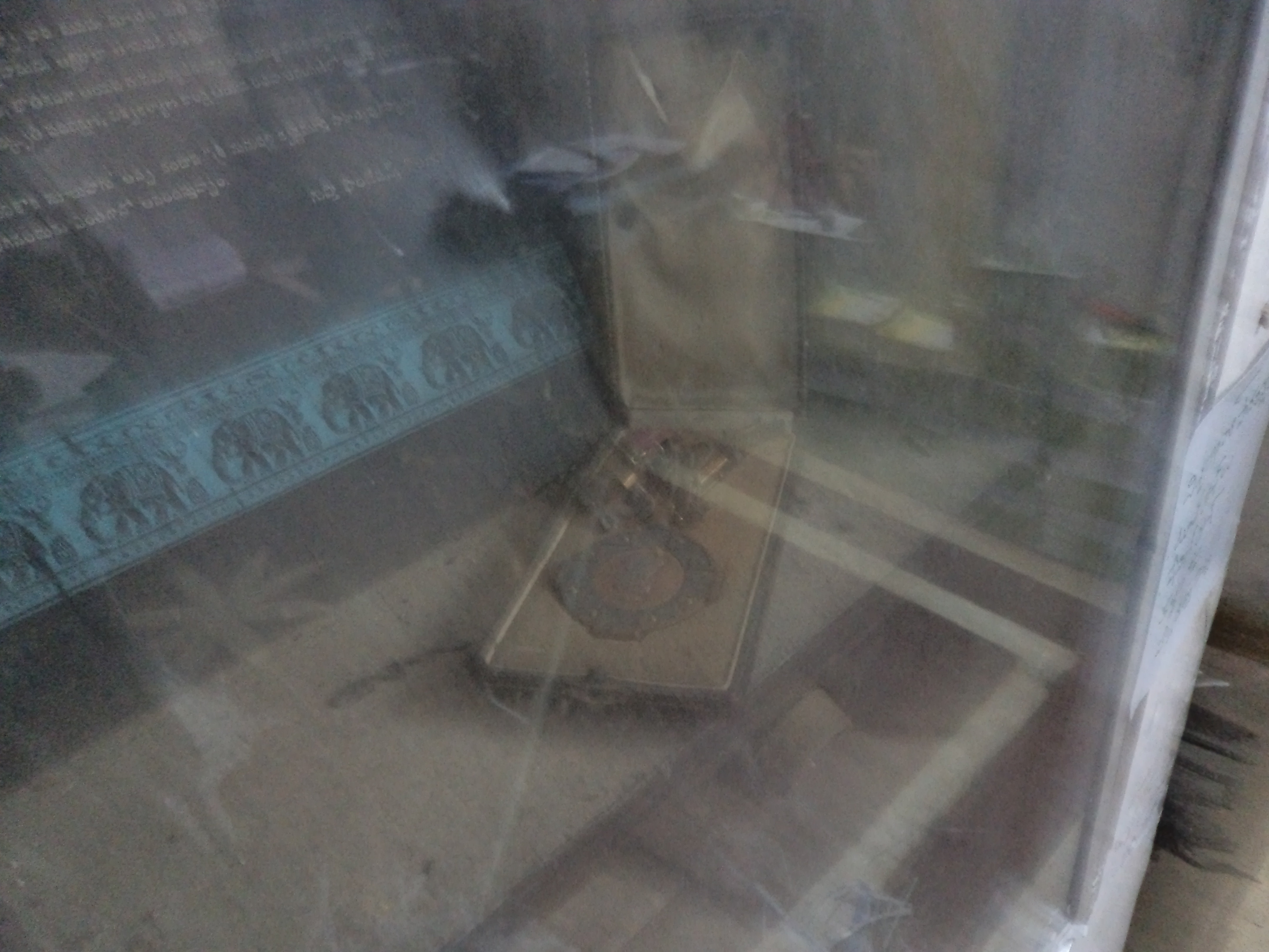 Viswanatha atyanarayana, a poet from Andhra Pradesh, Jnan pith award(the highest literature award in India) winner, his memories, his home and his posessions.